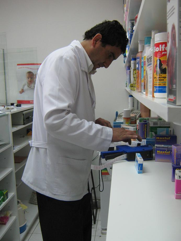 ancillary personal at work in a drugstore